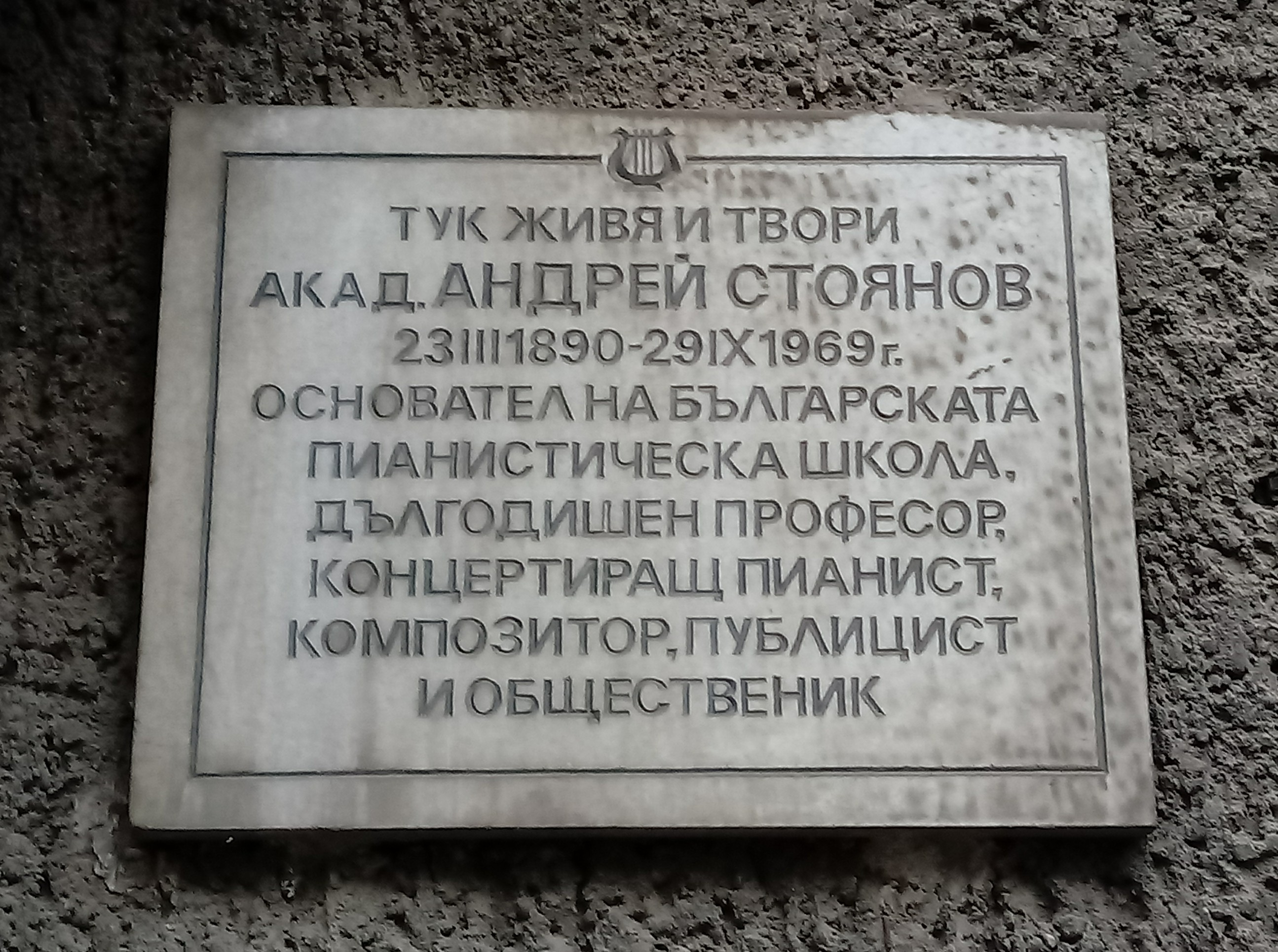 Andrey Stoyanov memorial plaque, 1A Racho Dimchev Str., Sofia